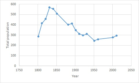 Total population of Brandeston, Suffolk as reported by the census of Population from 1801 -2011